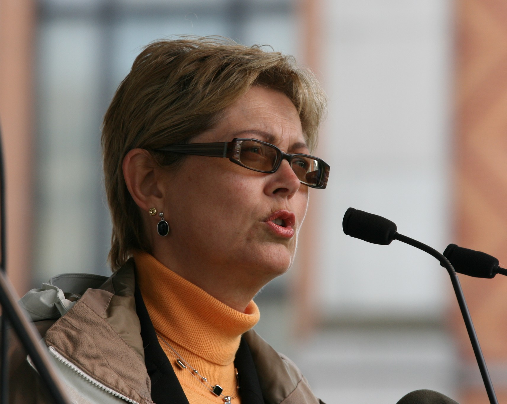 Ellen Stensrud